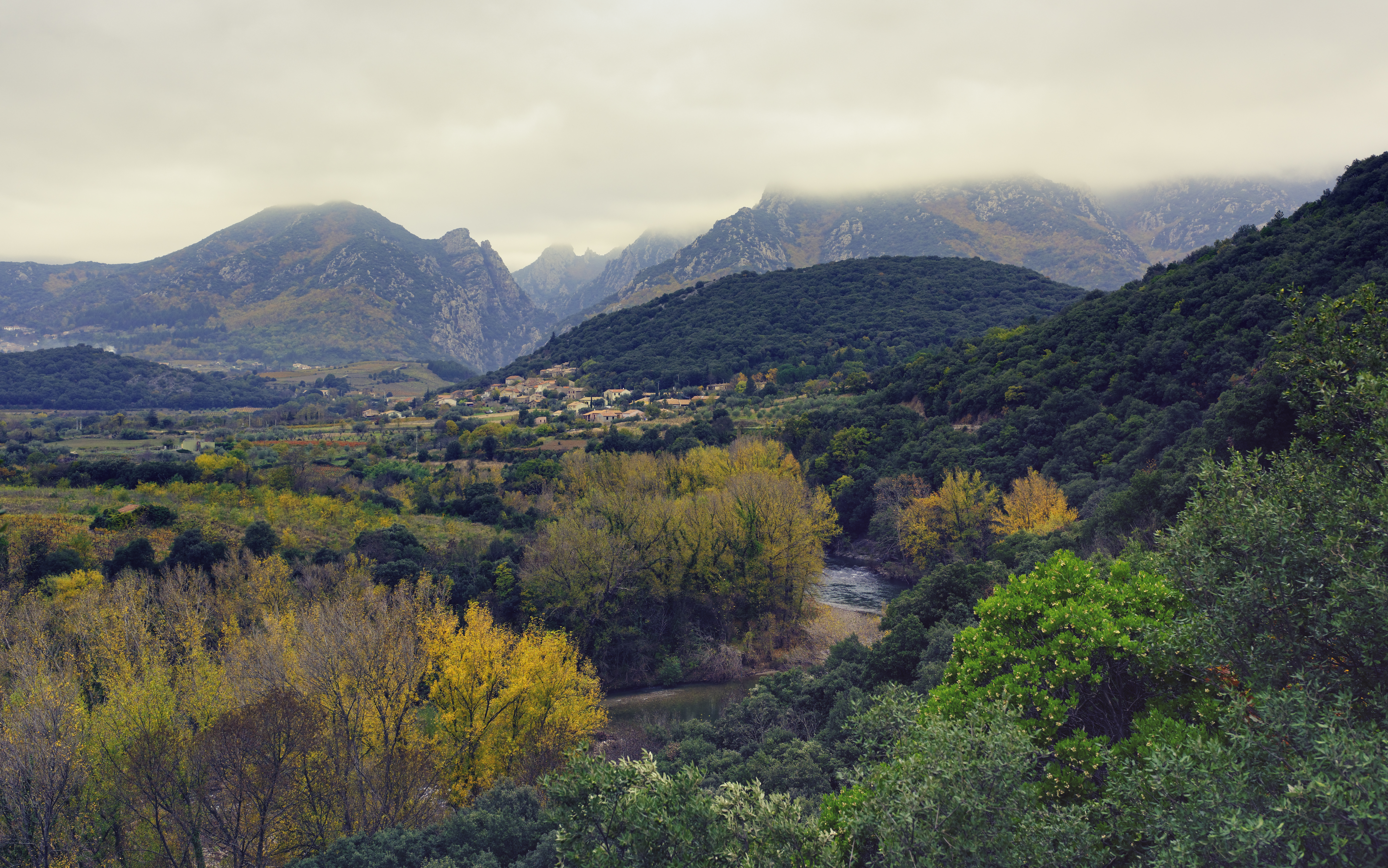 The hamlet of Tarassac in the Orb River valley. Commune of Mons, Hérault, France. Haut-Languedoc Regional Natural Park.